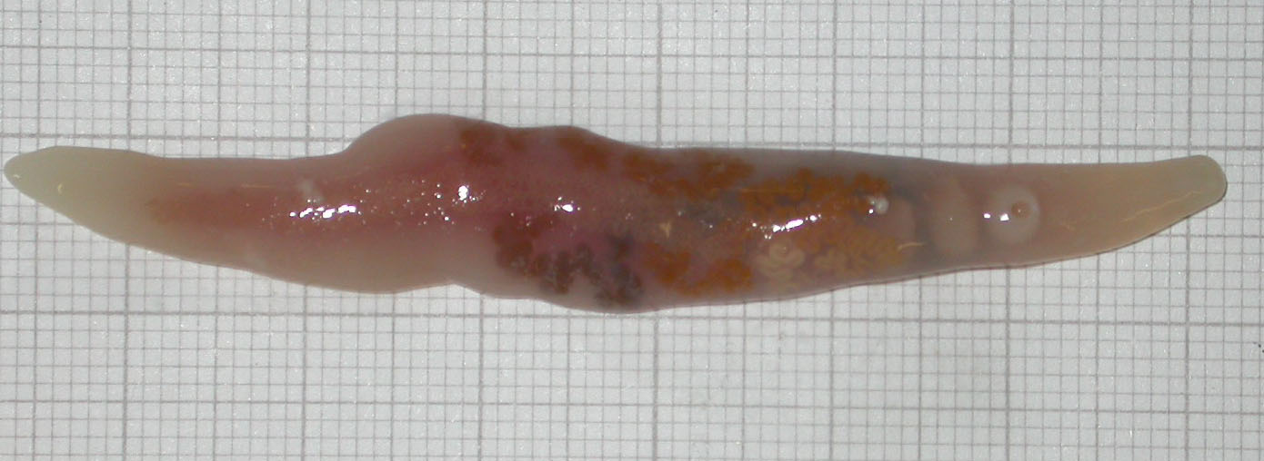 A giant digenean parasite, Botulus microporus, which lives in the intestines of lancetfish.